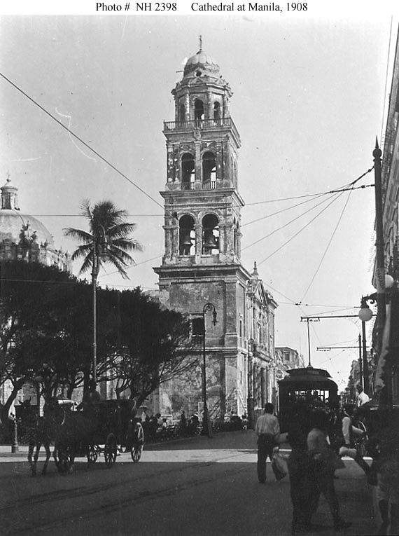 Incorrectly titled as the Manila Cathedral, but this is not the cathedral in 1908, nor this was taken in the Philippines. The tower is too tall and thin for the earthquake and typhoon-prone country. The unknown bell tower was seen by the men of the "Great White Fleet" and was first thought taken during their visit to Manila, Philippine Islands in 1908.